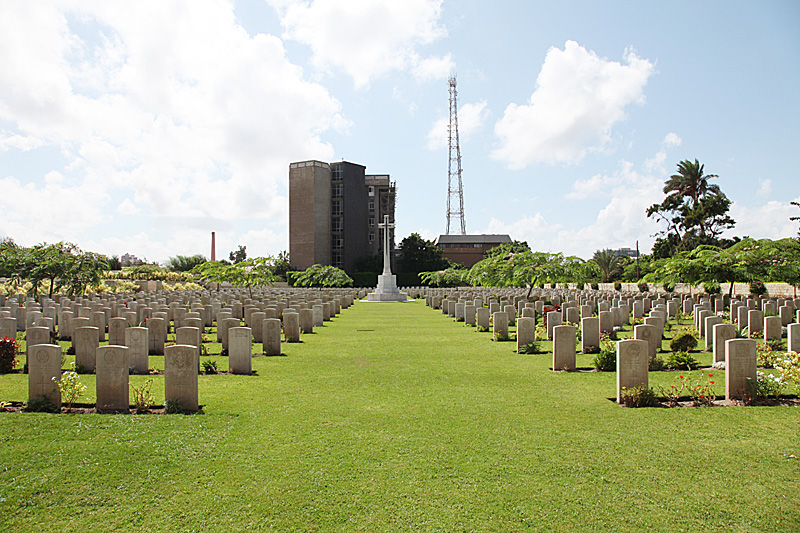 War Memorial Cemetery at el-Hadara, Alexandria, Egypt